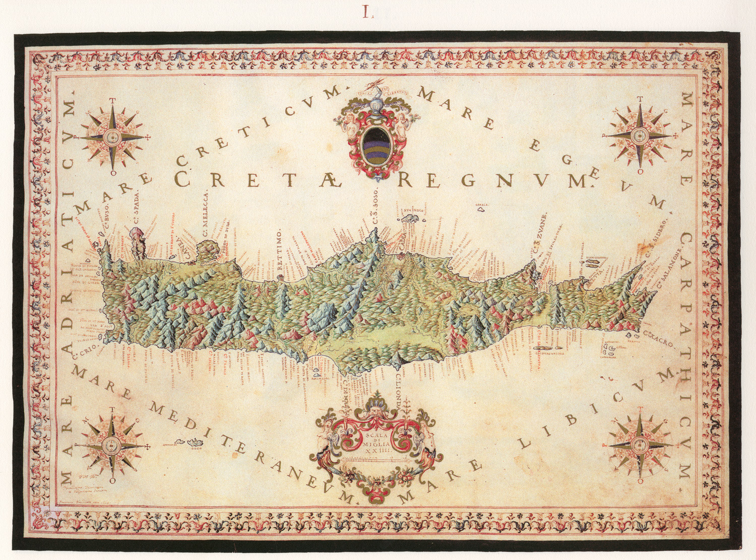 Isola di Candia a' Creta - Francesco Basilicata - 1618